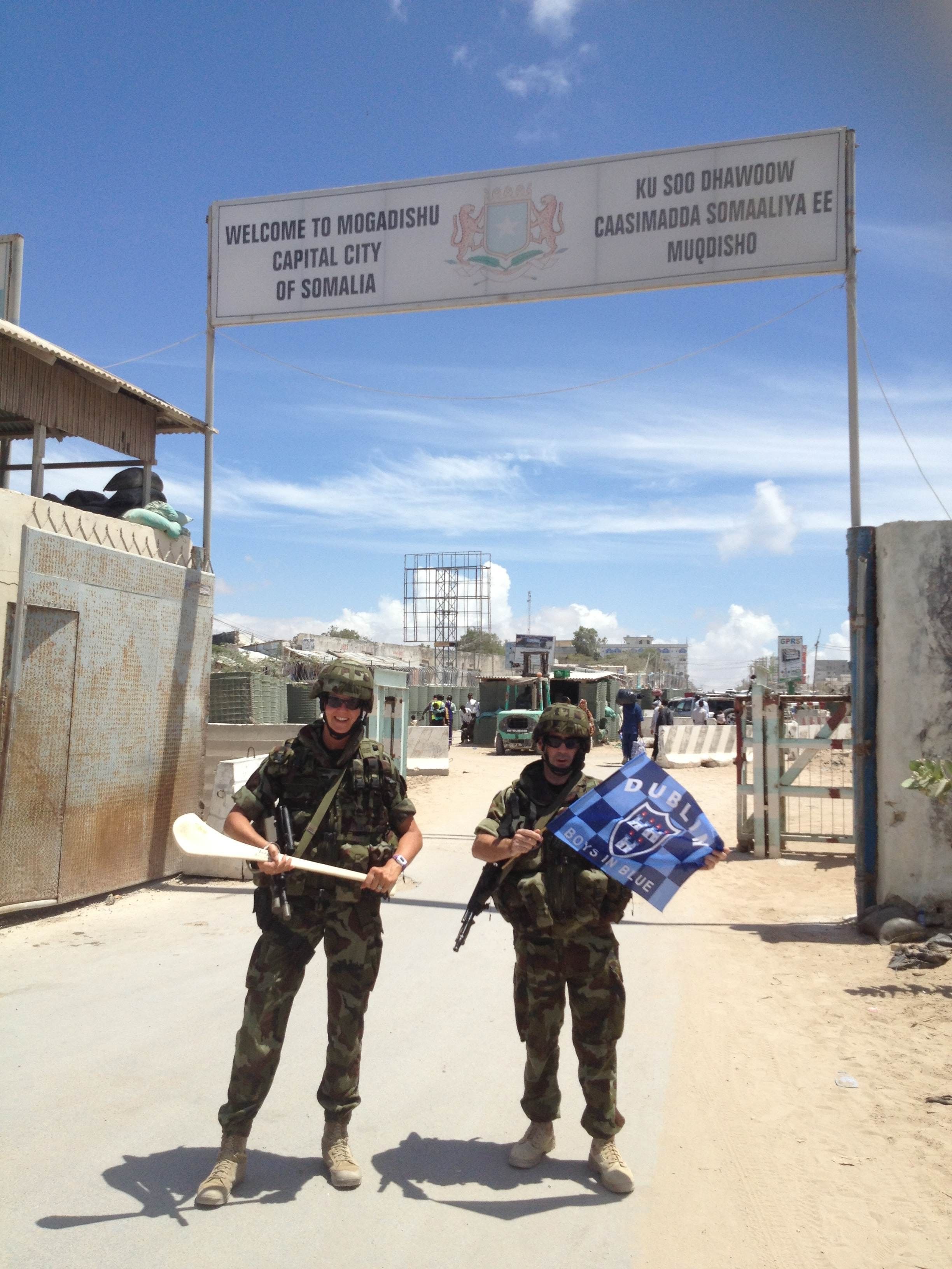 Sergeant Sinead Wearen and Sergeant Kelly in Mogadishu, Somalia.